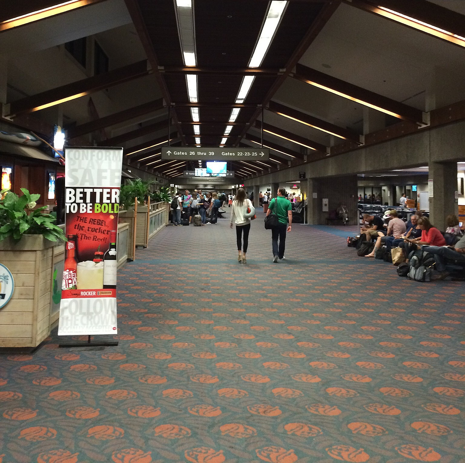 Corridor of the Maui Overseas Terminal